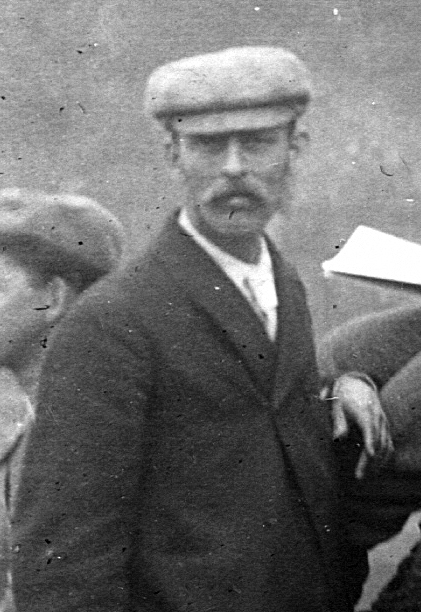 American geologist George Ferdinand Becker (1847–1919) at age 50. Cropped from a group photo taken at Jefferson Rock, Harpers Ferry, West Virginia.